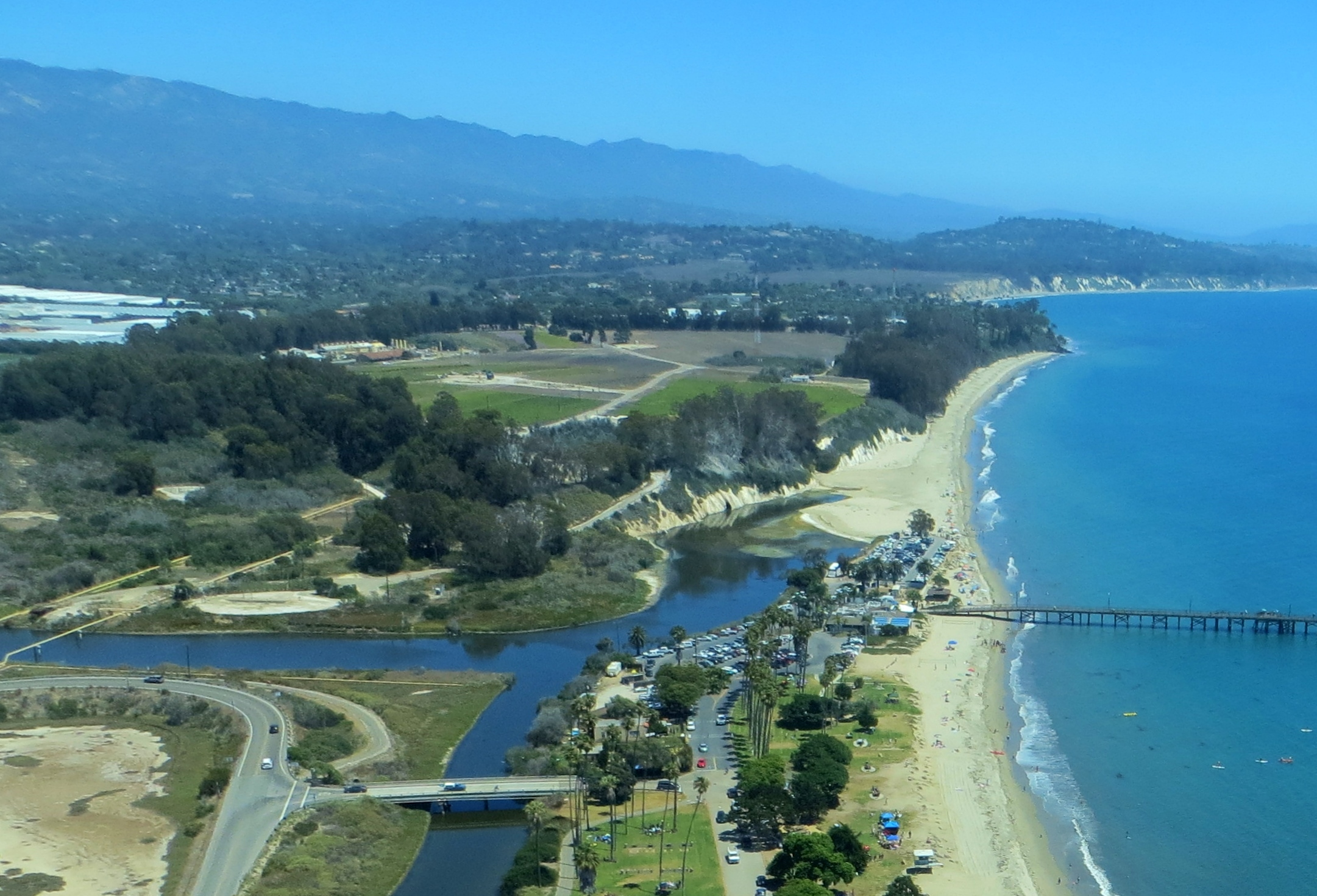 Goleta Gas Field, looking east, from a Cessna just taking off from the Santa Barbara Airport. Photo by self, cc-by-sa 3.0.